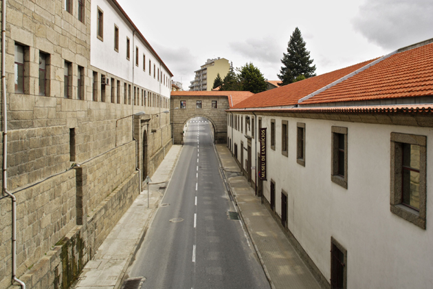 Royal Factory of Covilhã